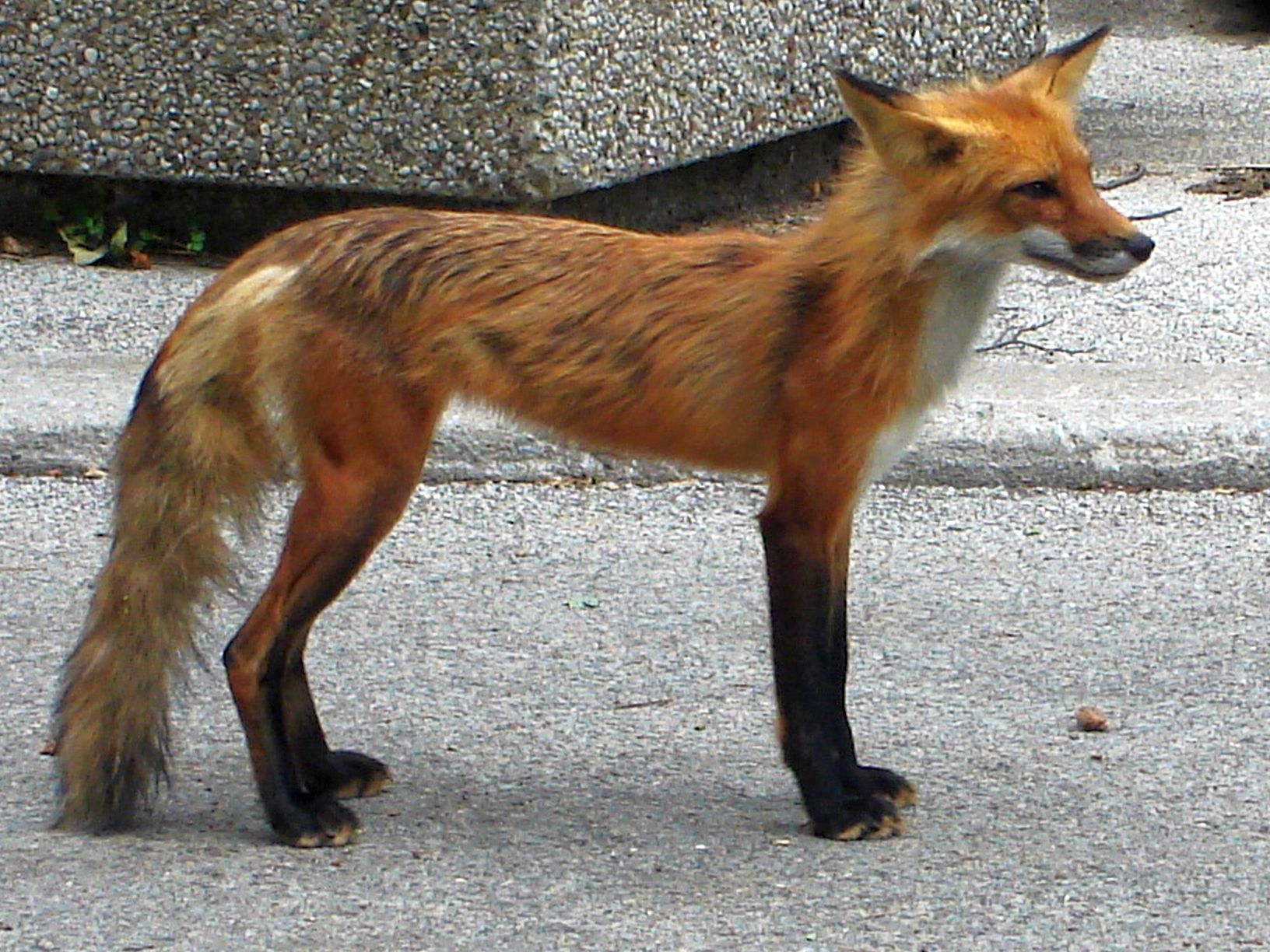 Fox in Toronto, downtown highpark.